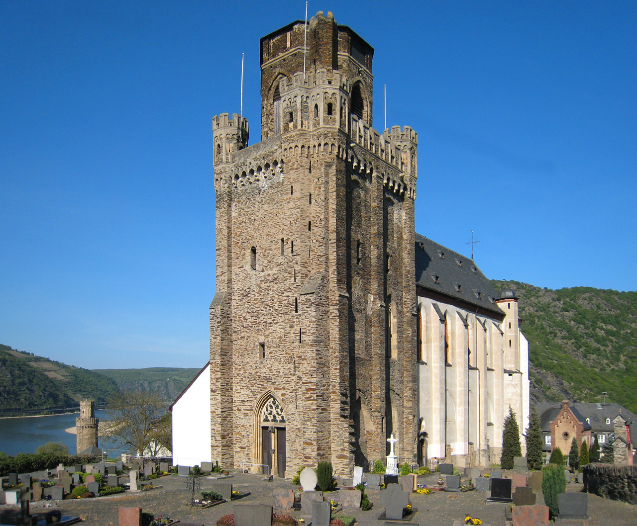 Church St. Martin of Oberwesel on the Middle Rhine